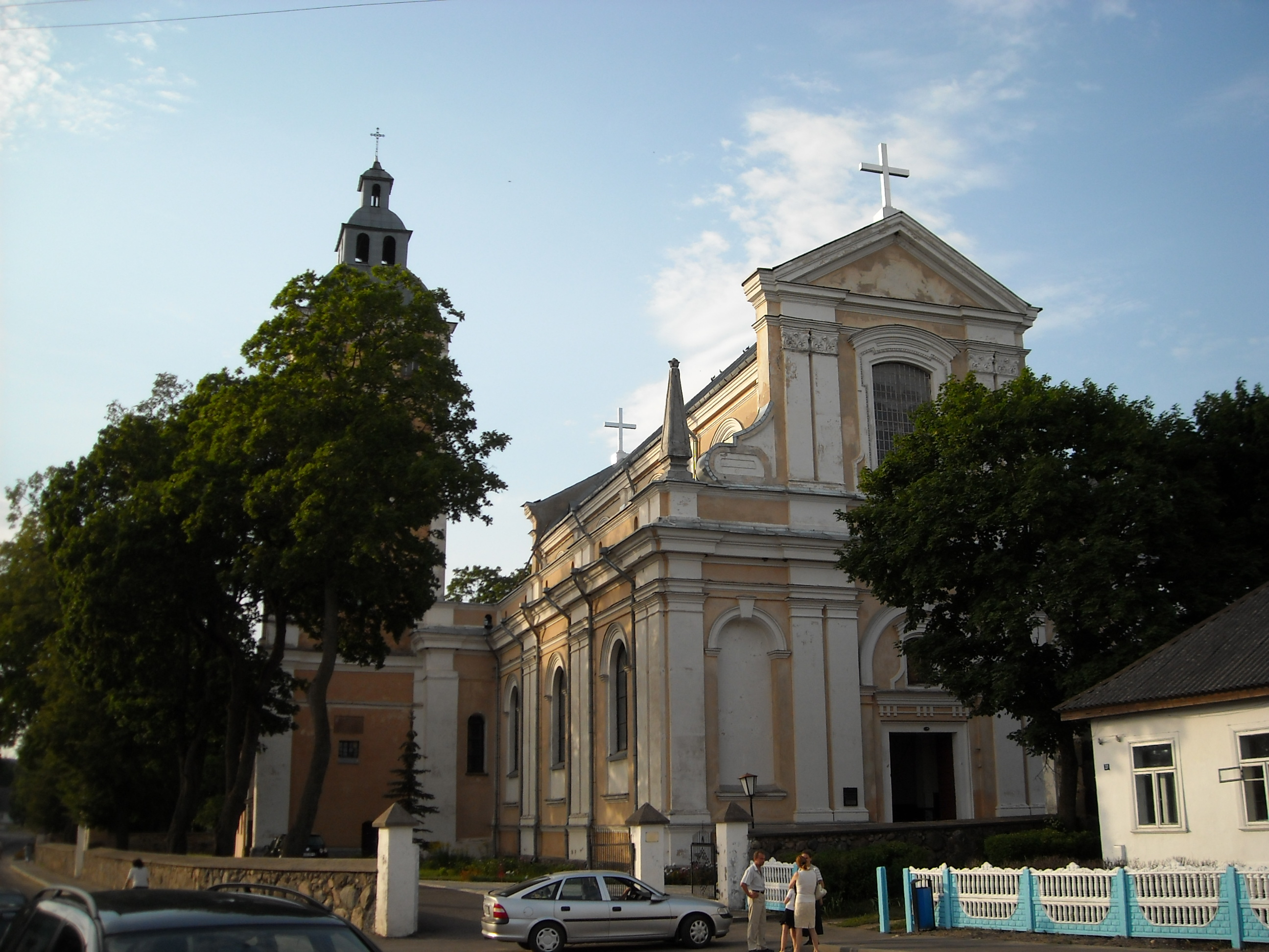 Беларуская (тарашкевіца): Мікалаеўскі касьцёл. г.п. Сьвір This is a photo of Belarusian heritage monument. Reference number: 612Г000454 ( WLM)